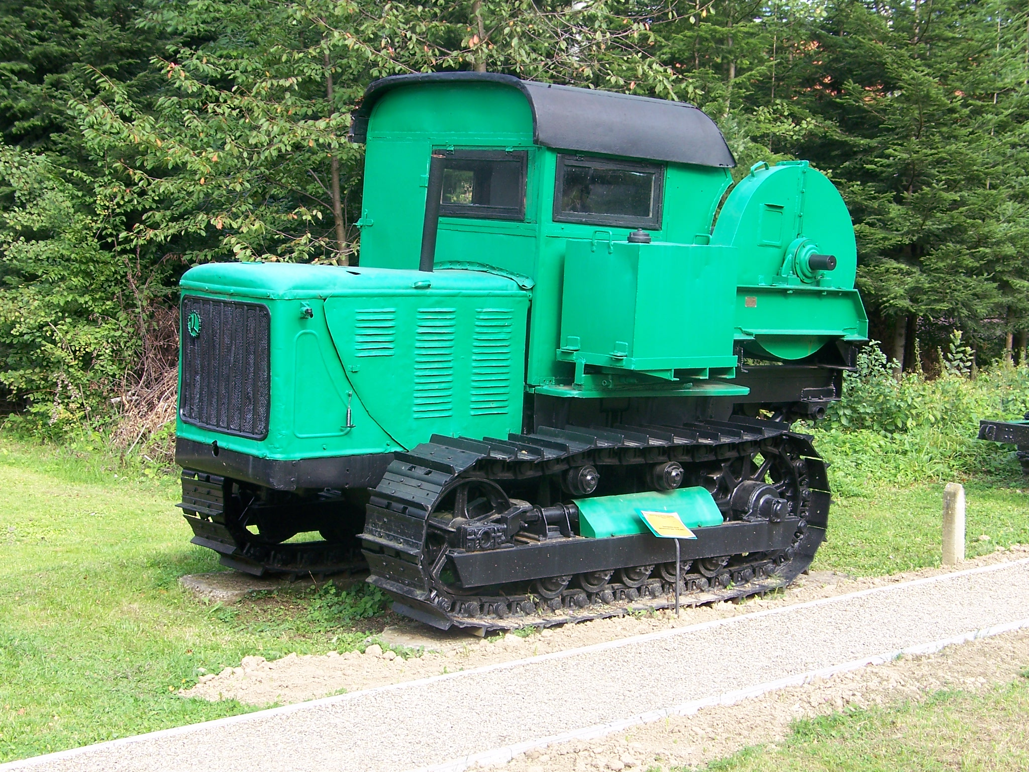 Exhibit in Museum of Oil and Gas Industry in Bóbrka, Poland